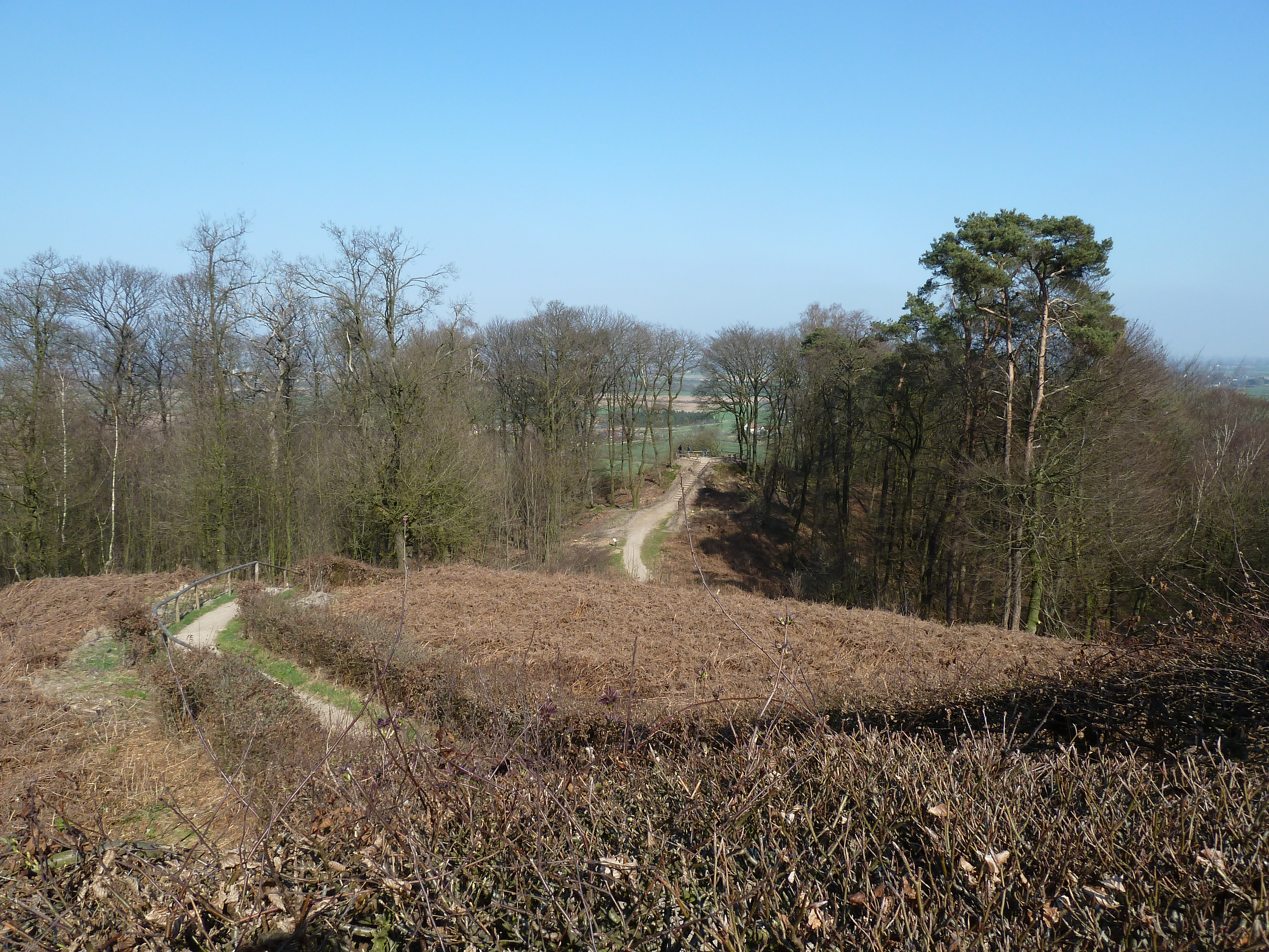 Devil's Mountain (Duivelsberg), Beek, Ubbergen, Gelderland, the Netherlands